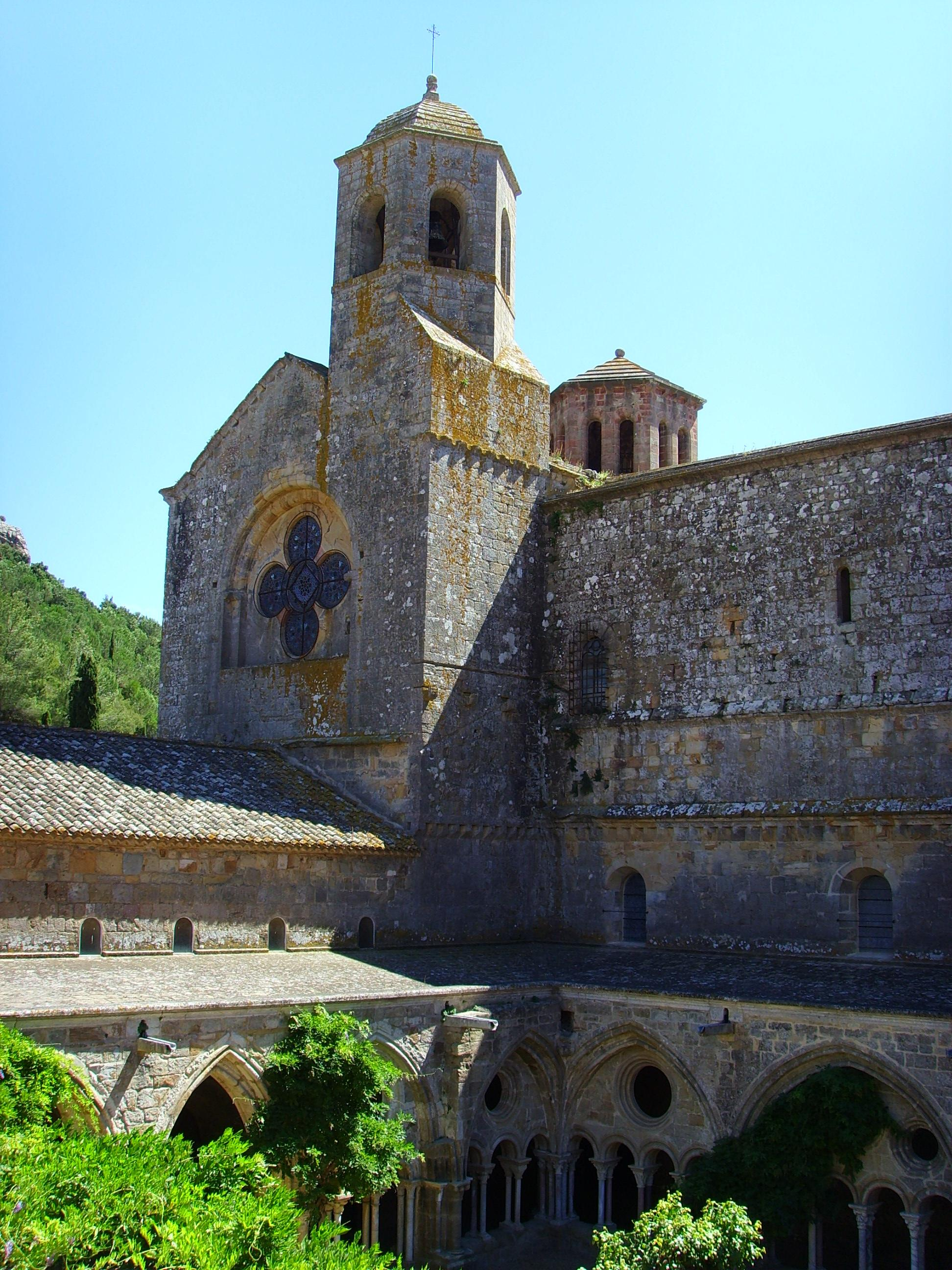 Abbaye Sainte-Marie de Fontfroide (France, southwest of Narbonne), cloister and church spire summer 2006 author: Gerbil